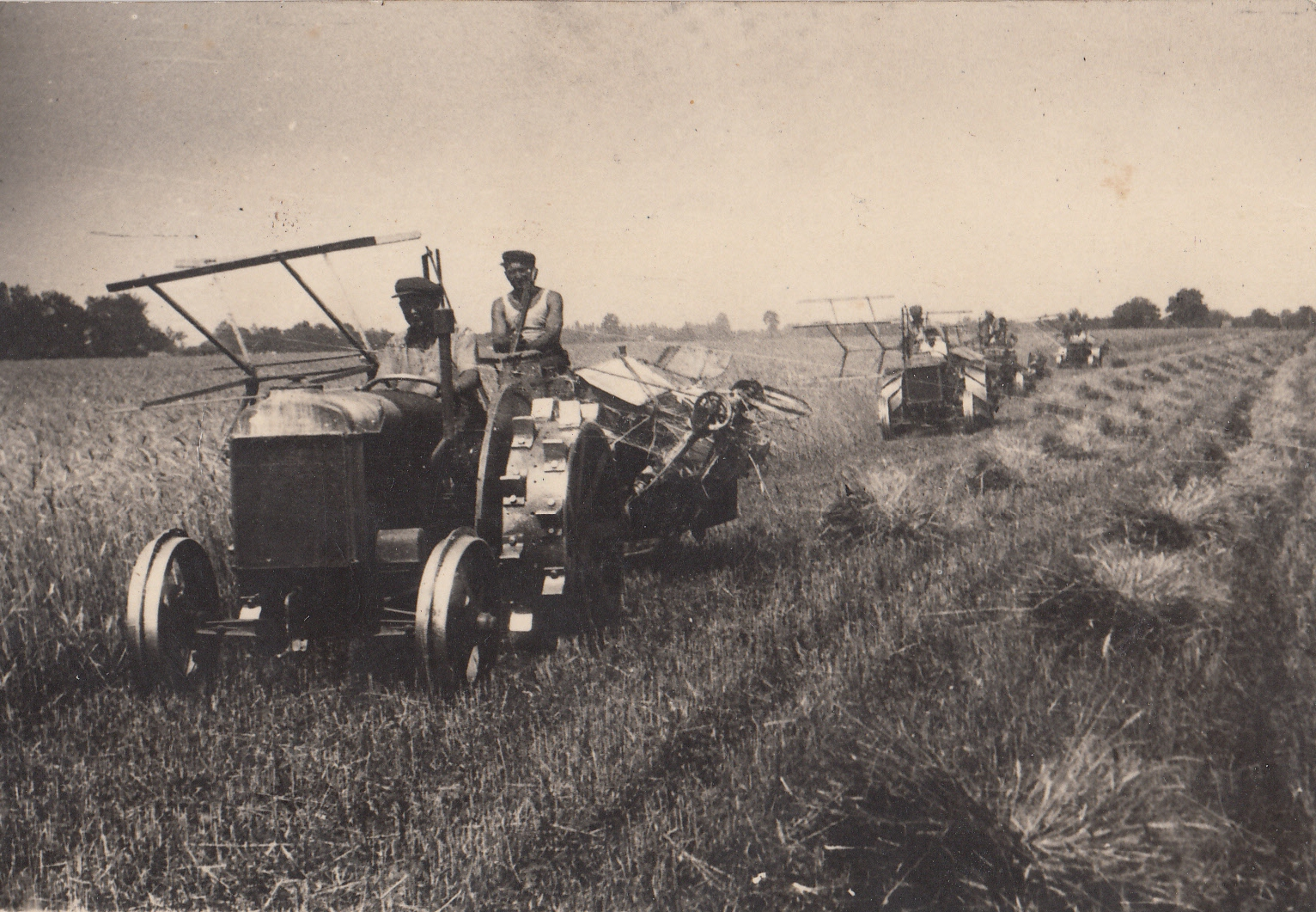 Harvest in Bački Petrovac (Vojvodina, Serbia), agricultural cooperative "Boris Kidrič" (second half of the 1940s). Inventory number 2564. Srpski (latinica): Žetva u Bačkom Petrovcu, seljačka radna zadruga "Boris Kidrič" (druga polovina 1940-ih). Inventarski broj 2564.